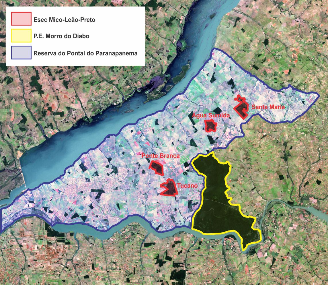 Conservation units of Pontal do Paranapanema, São Paulo state, Brazil: Blue line: Ponta do Paranapanema Great Reserve (nowadays, desforested) Red line: Mico-leão-preto Ecological Station: divided in four forest patchs; Tucano, Ponte Branca, Água Sumida, Santa Maria Yellow line: Morro do Diabo State Park The conservation units limits were delineated by Miguelrangeljr, using Corel Draw X6, based on the Mico-leão-preto Ecological Station Management Plan. Pontal do Paranapanema region is the most important for the black lion tamarin conservation.